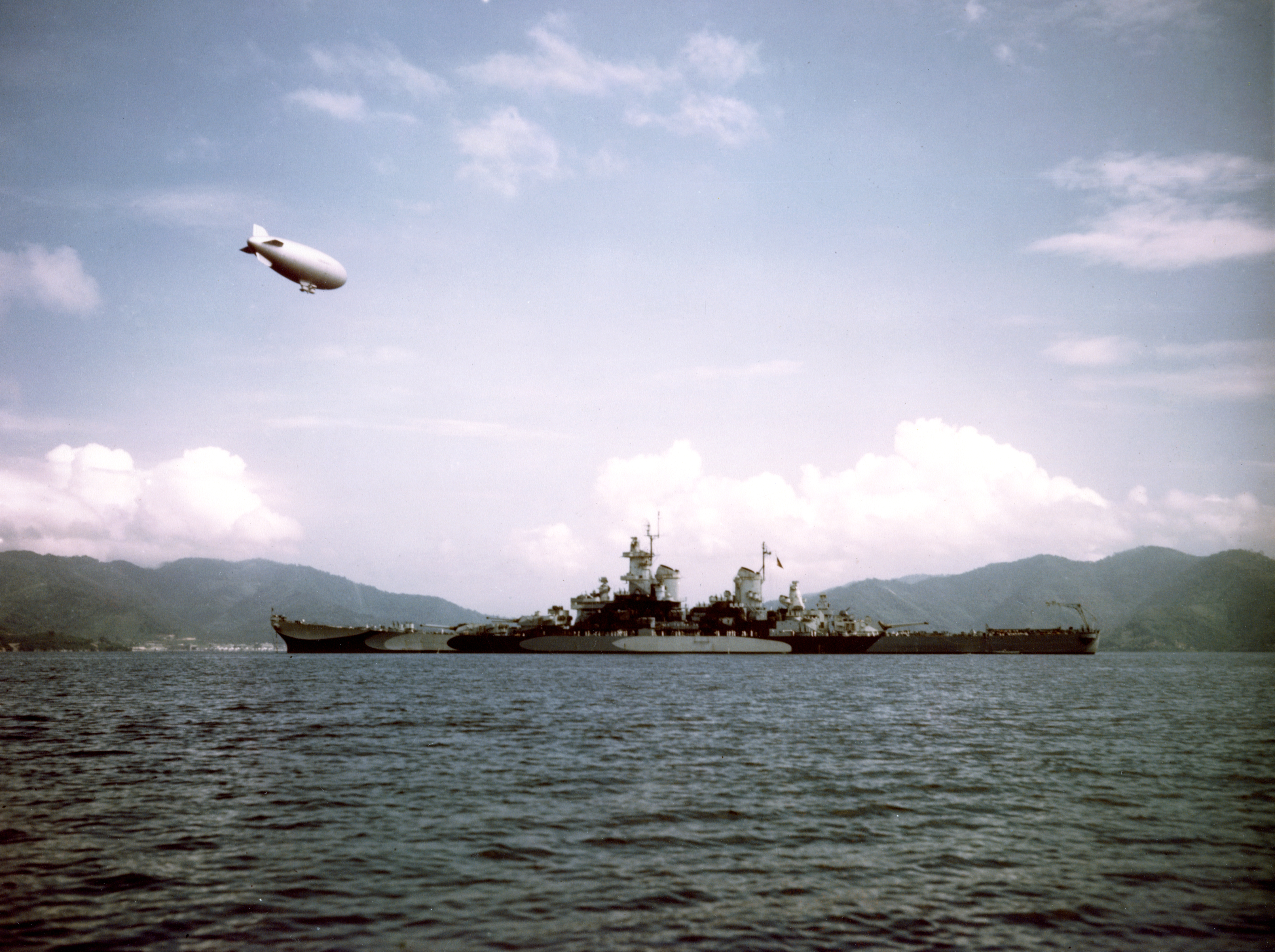 The U.S. Navy battleship USS Missouri (BB-63) anchored in port during her shakedown cruise, circa August 1944. She is wearing camouflage Measure 32 Design 22D. A K-type blimp is overhead.